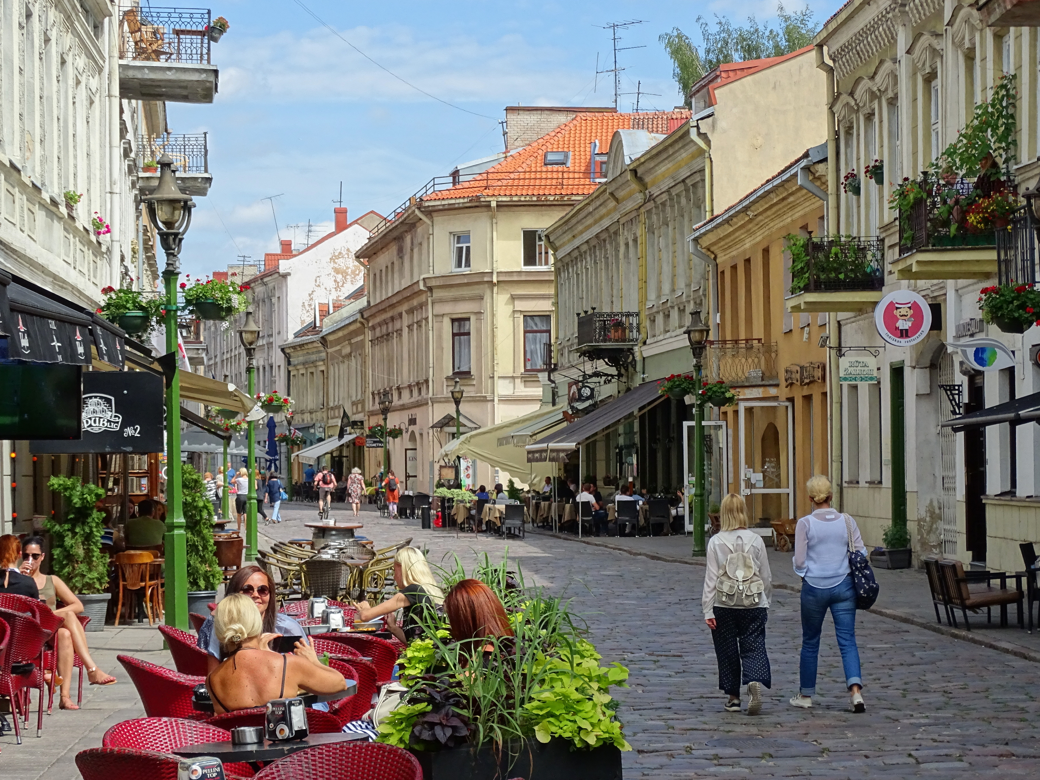 Street Scene along Vilniaus Gatve - Kaunas - Lithuania - 02